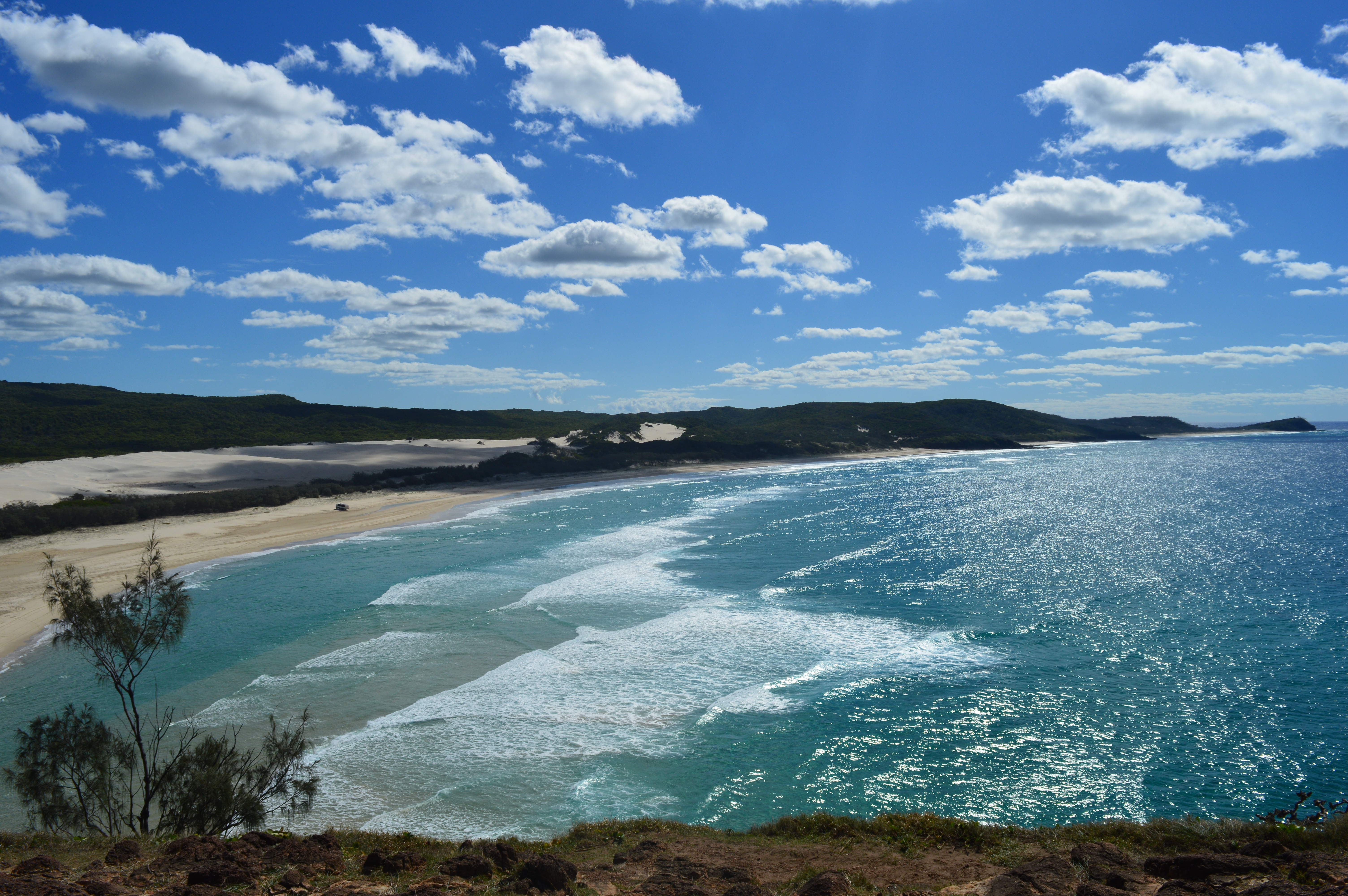 A view of the beach from Indian Head, on Fraser Island in Queensland, Australia.